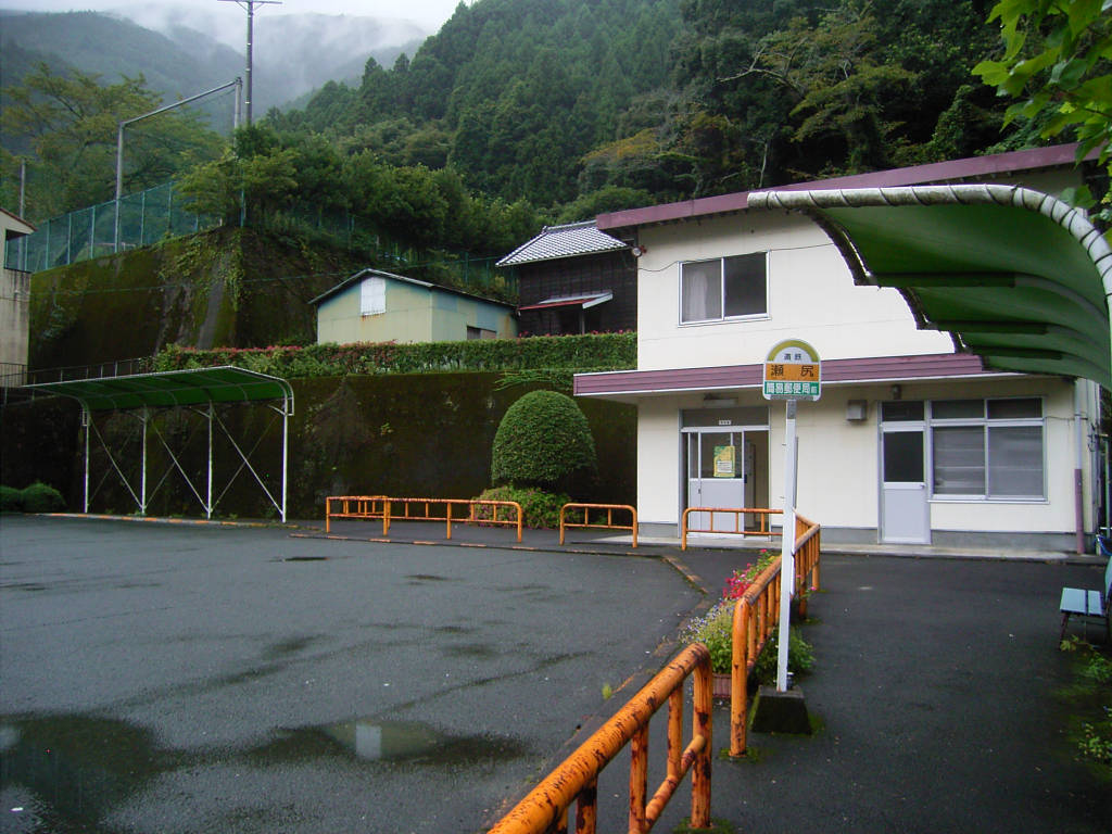 Entetsu Bus Sejiri Bus Stop in Hamamatsu City, Shizuoka Prefecture, Japan